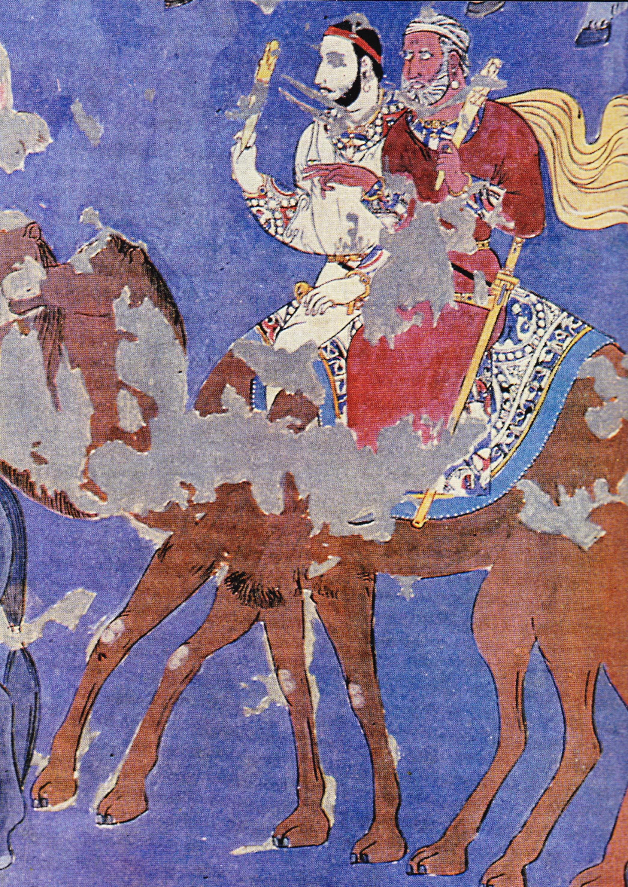 Details of a copy of mural called The Ambassordors' Painting, found in the hall of the ruin of an aristocratic house in Afrasiab, commissioned by the king of Samarkand, Varkhuman (ca. 650)